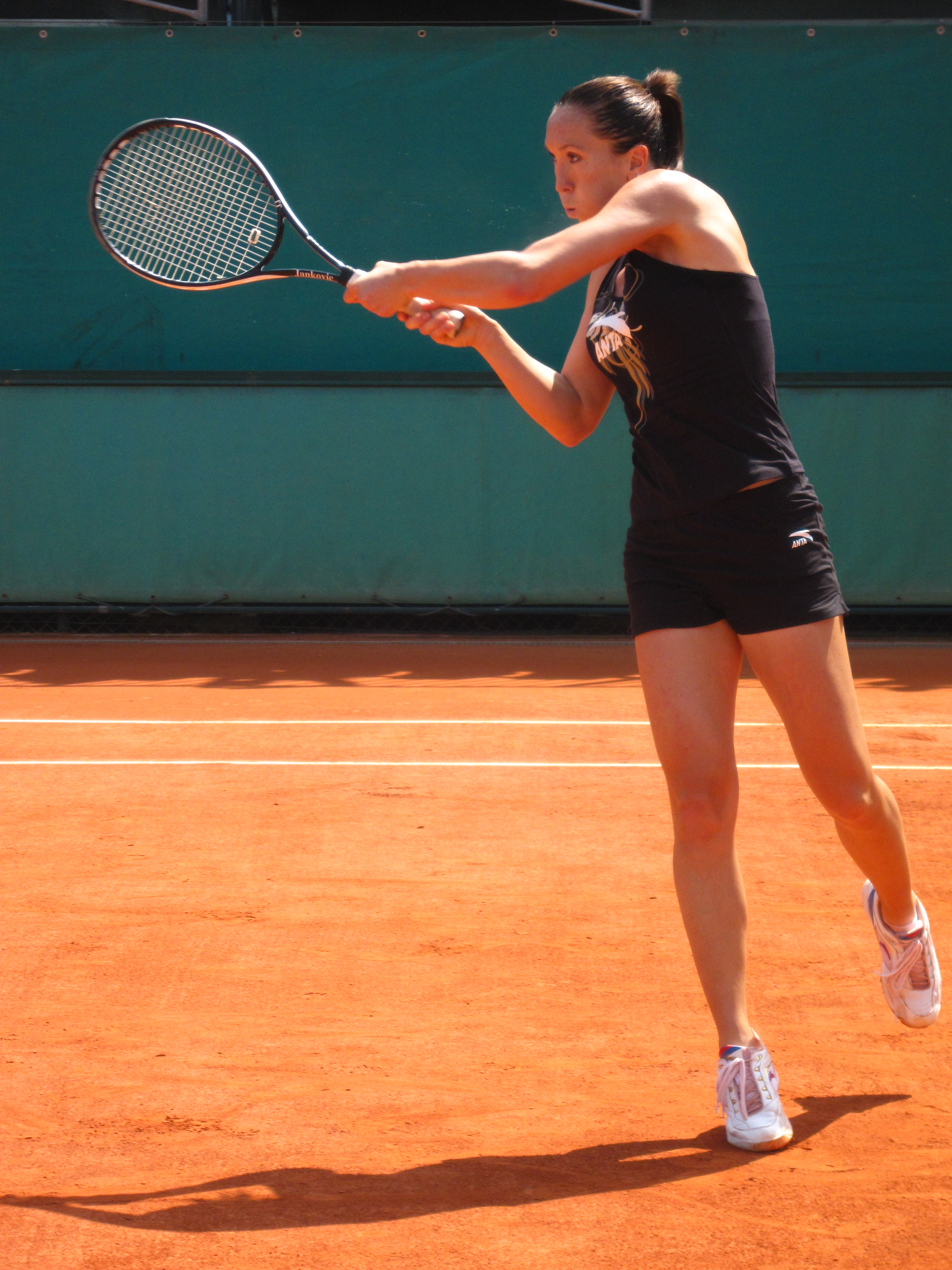 Jelena Janković at 2009 Roland Garros, Paris, France